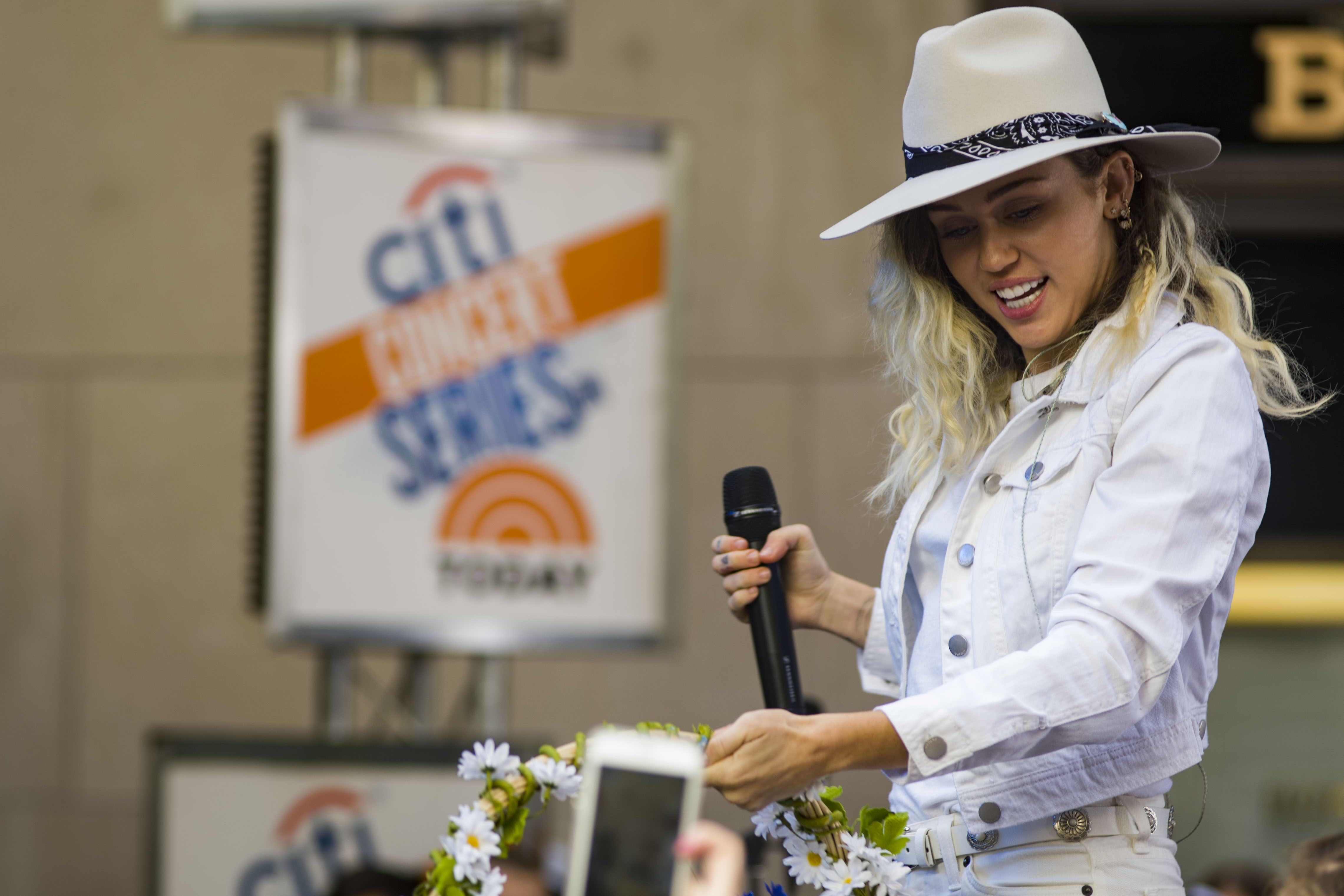 170526-N-EO381-074 NEW YORK (May 26, 2017) Ð Miley Cyrus performs on the Today Show in downtown Manhattan for Fleet Week New York (FWNY). FWNY, now in is 29th year, is the cityÕs time honored celebration of the sea services. It is an unparalleled opportunity for the citizens of New York and the surrounding tri-state area to meet Sailors, Marines and Coast Guardsmen, as well as witness firsthand the latest capabilities of todayÕs maritime services. (U.S. Navy photo by Mass Communication Specialist 3rd Class Casey J. Hopkins/Released)